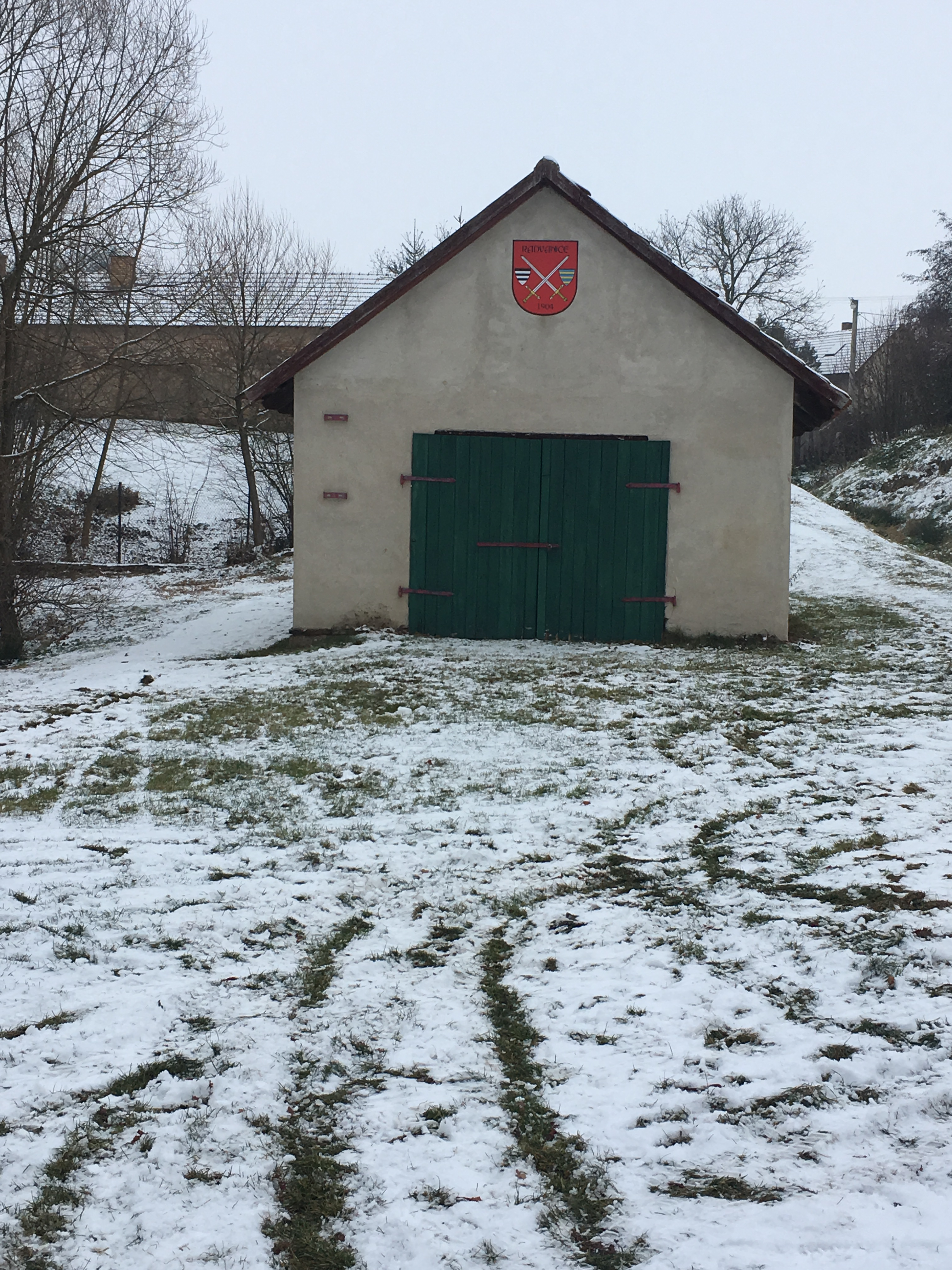 Hasičská stanice Radvanice